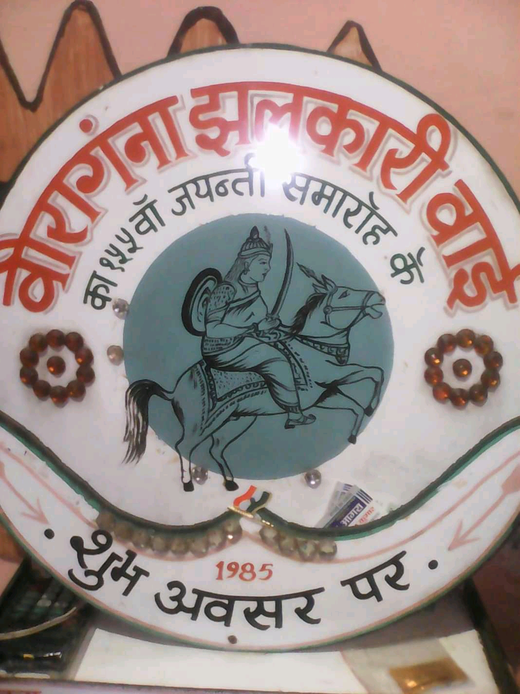 Jhalkari Bai Shield 1985